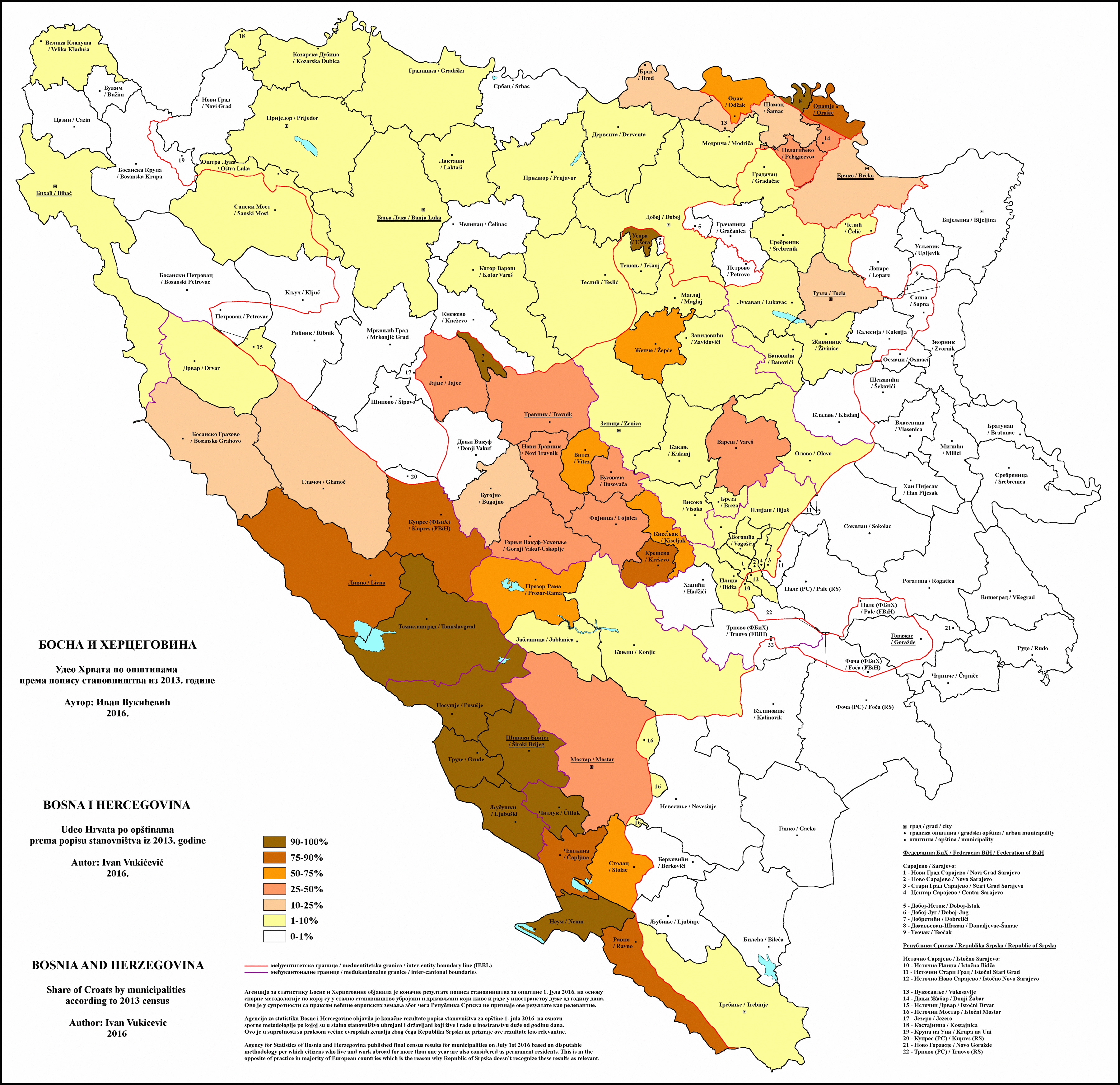 Share of Croats in Bosnia and Herzegovina by municipalities 2013. Authorː Ivan Vukicevic - Sources: - Census of population, households and dwellings in Bosnia and Herzegovina, 2013 - Final results, Agency for statistics of Bosnian and Herzegovina, 1st of July 2016. - EU legislation on the 2011 Population and Housing Censuses, Eurostat, 2011. Recommendations for status of permanent residents followed by majority of EU member and candidate countries on page 66, Topic: Place of usual residence, paragraph (d)ː An institution shall be taken as the place of usual residence of all its residents who at the time of the census have spent, or are likely to spend, 12 months or more living there. - Public announcement, 4th of July 2016, Republic of Srpska Institute of Statistics, 4th of July 2016. With this announcement institute disputes the methodology used by Agency for statistics of Bosnia and Herzegovina.